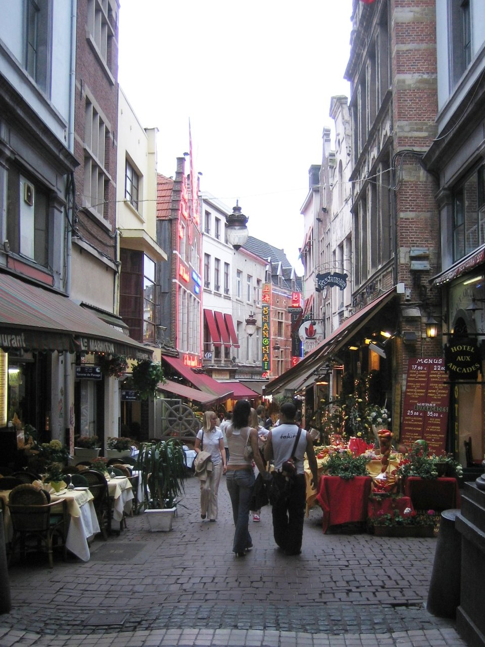 Rue des Bouchers Beenhouwersstraat, Brussels - 2005